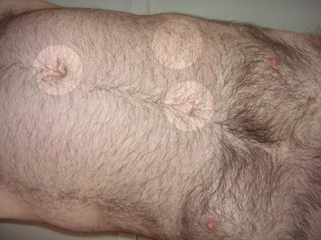 Abdomen of a 45-year-old male approximately one month after a laparoscopic cholecystectomy. Surgical incision points are highlighted; the one at top right is barely visible. The gall bladder was removed via the incision at the navel. There is a fourth incision (not shown) on the patient's right lower flank, used for draining. All incisions have healed well and the most visible remaining effect of surgery is from the pre-operative hair removal.